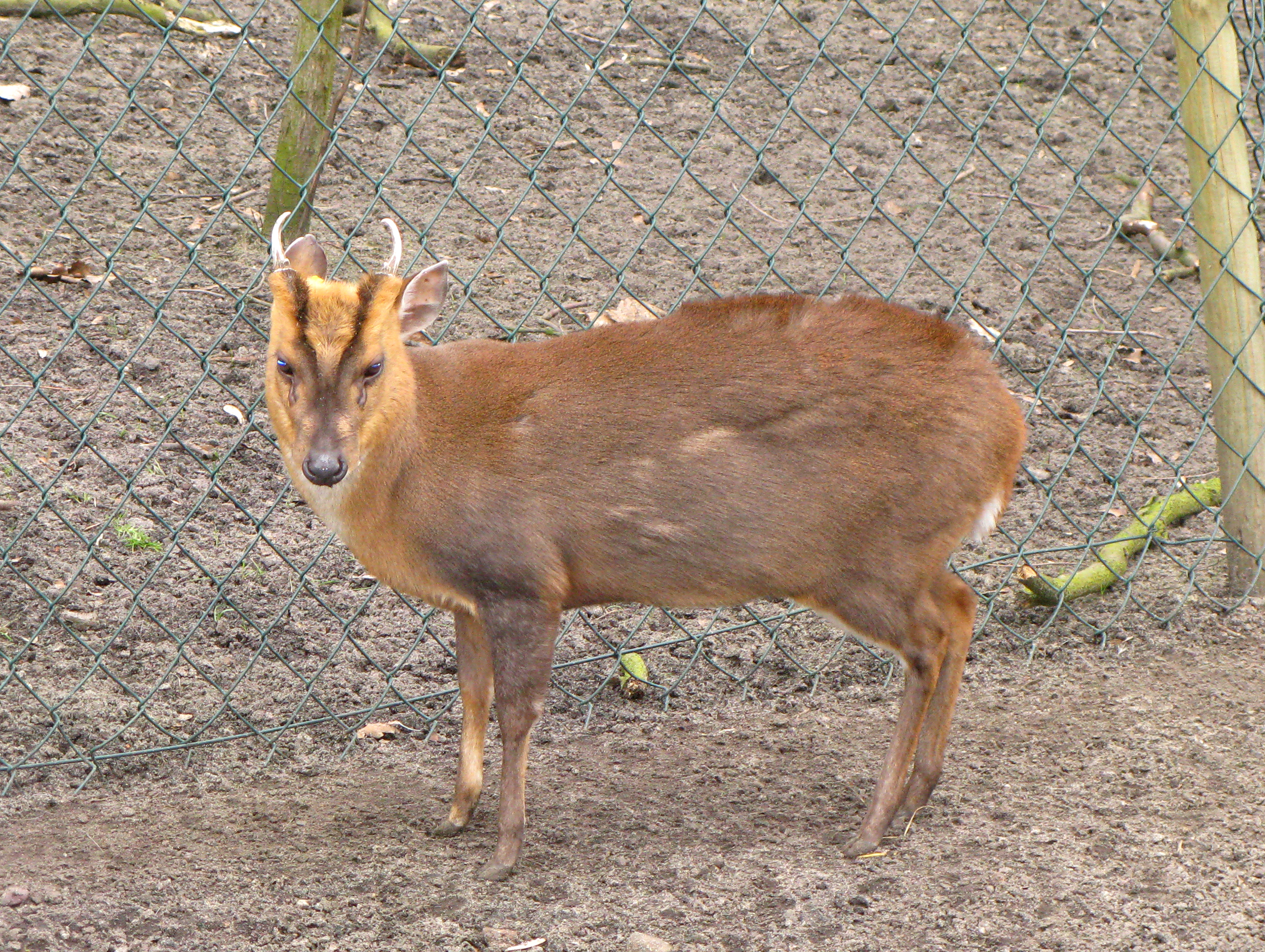 Muntiacus reevesi in Zoo-Botanical Garden in Toruń